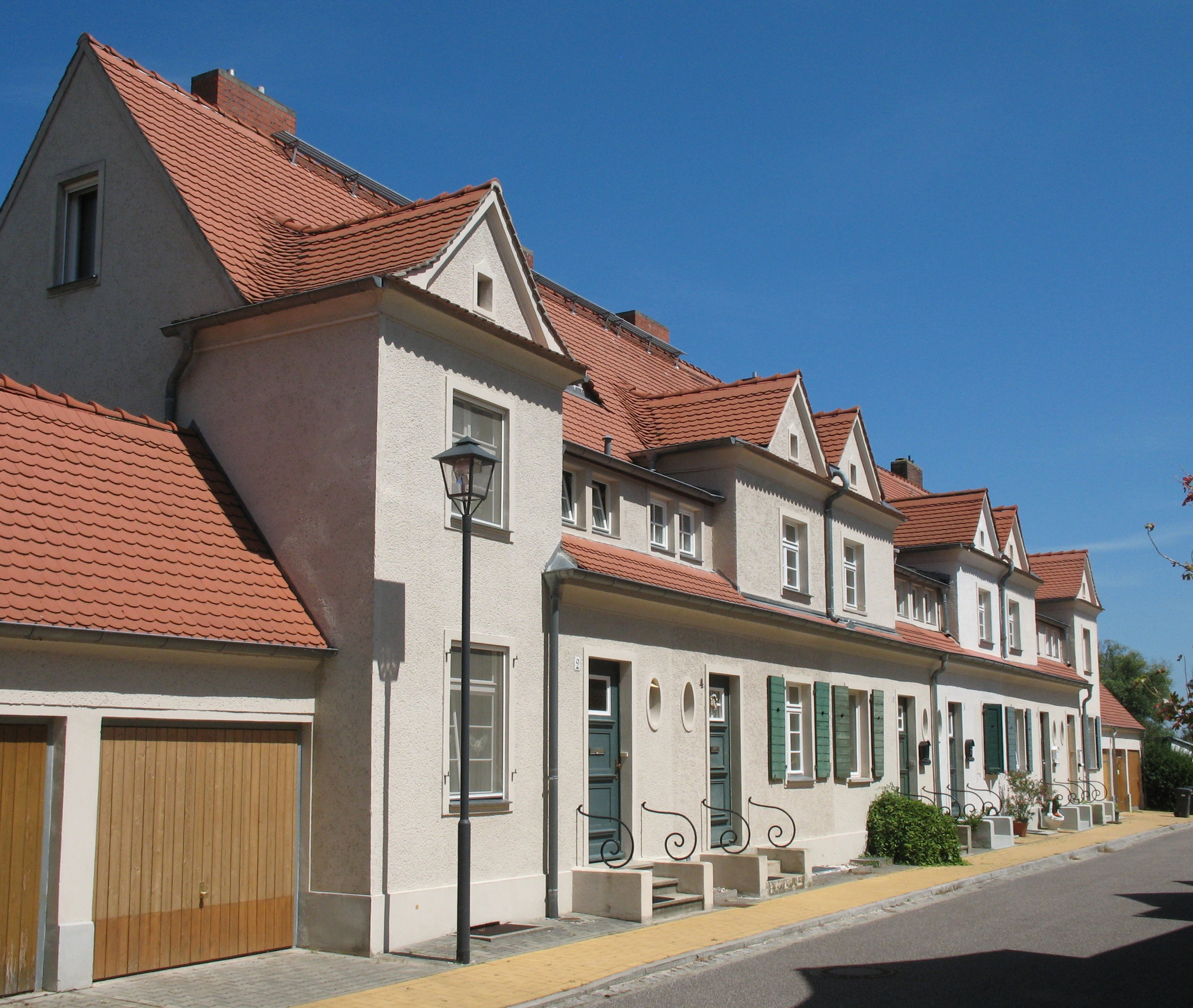 Listed building in Brandenburg-Kirchmöser in Brandenburg, Germany